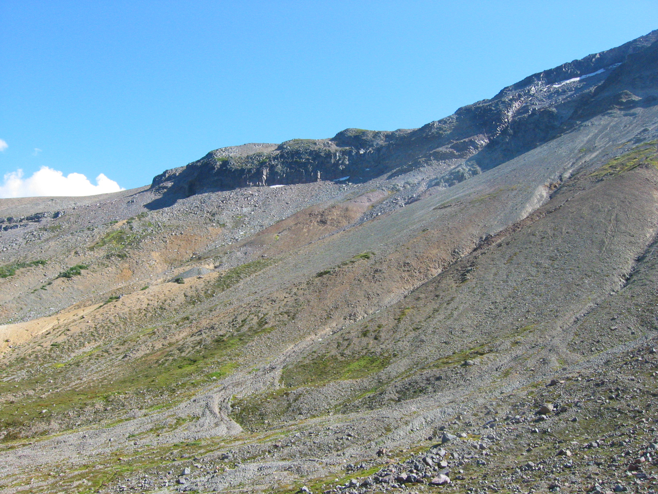 Looking down and across Glacier Basin, Mount Rainier National Park. The term for gravel talus fields with this minimal plant life is "fell field".